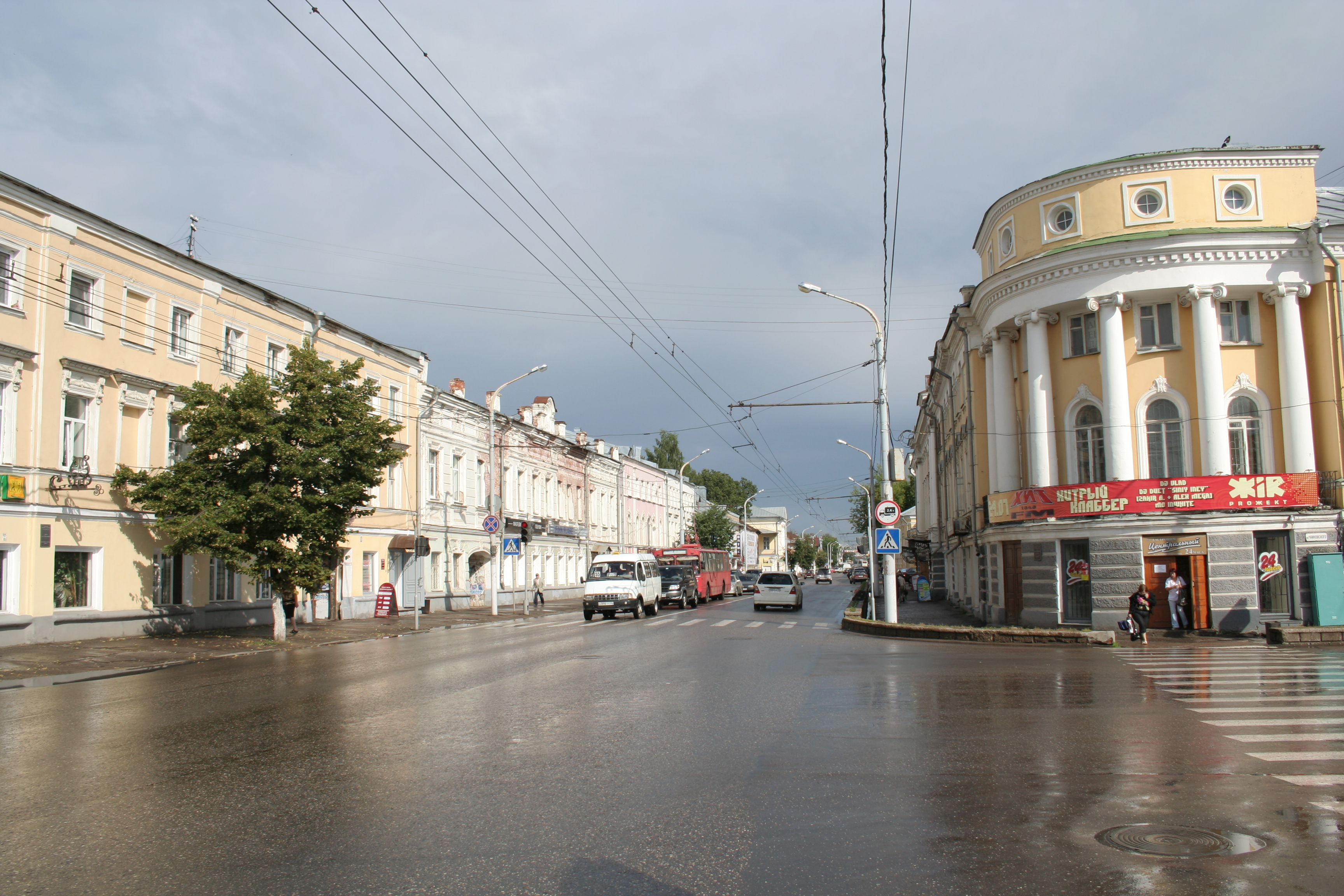 Old part of the Sovietskaya Street in Kostroma, Russia.